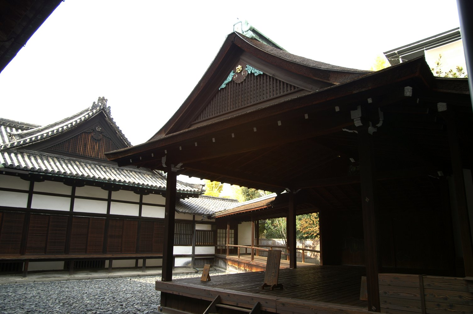 本願寺白書院前の「北能舞台」(国宝) 懸魚（げぎょ）に天正9年(1581)の墨書紙片があり、日本最古の能舞台とされています。 (2005/11/26 Hongwanji Temple, Kyoto, JAPAN) /* UNESCO World Heritage */ Historic Monuments of Ancient Kyoto (Kyoto, Uji and Otsu Cities) (1994) 世界遺産「古都京都の文化財」